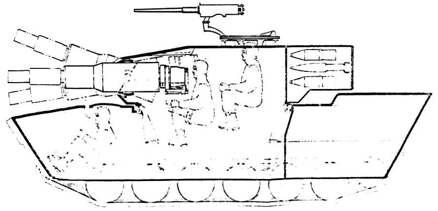 152mm Gun, Armored Reconnaissance Airborne Assault Vehicle, Amphibious (side)